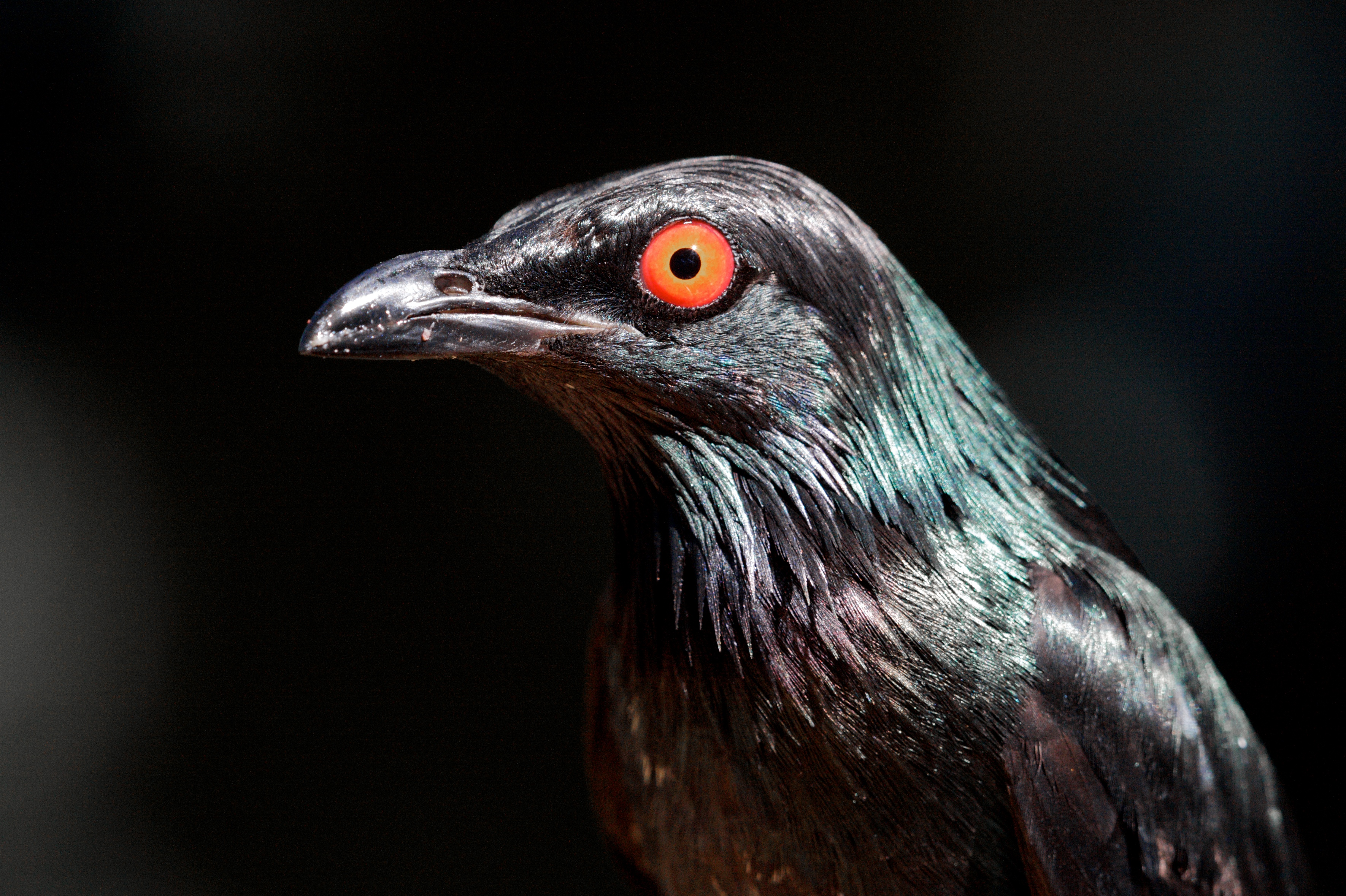 A male Metallic Starling at San Diego Zoo, California, USA.